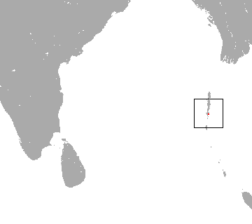 Jenkin's Shrew (Crocidura jenkinsi) range